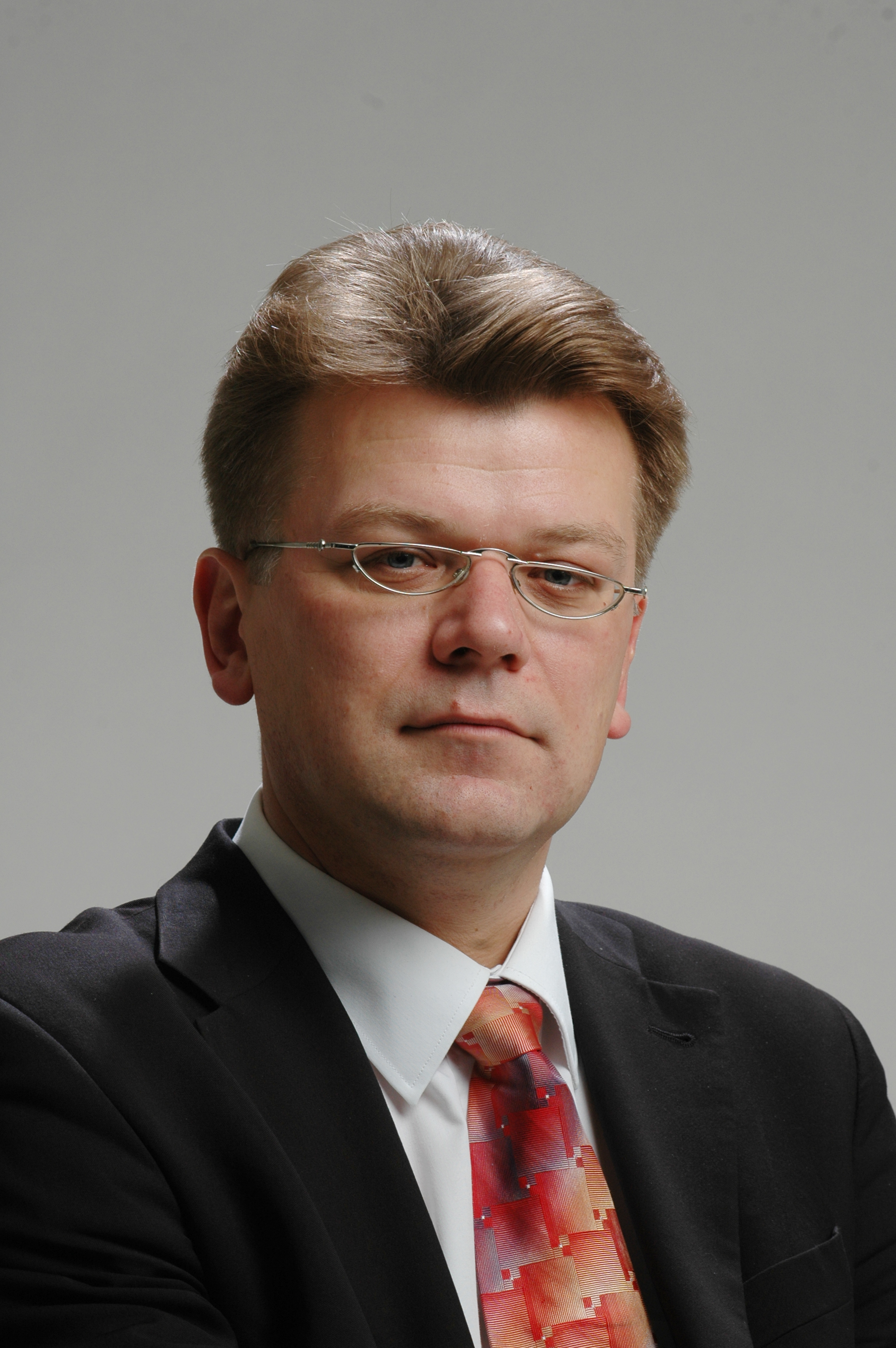 Deputy of the 9th Saeima Aigars Štokenbergs